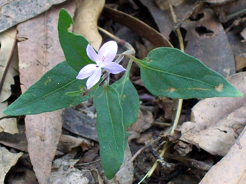 Pseuderanthemum variabile in a Eucalyptus pilularis forest at Chatswood West, Australia